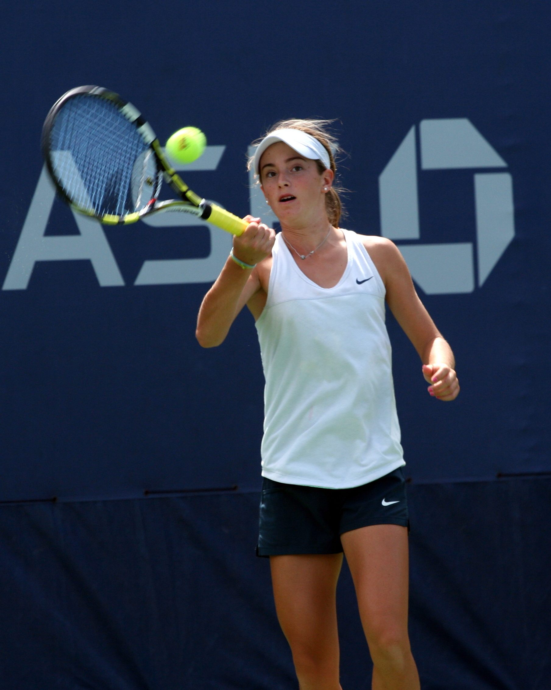 CiCi Bellis at the 2013 US Open